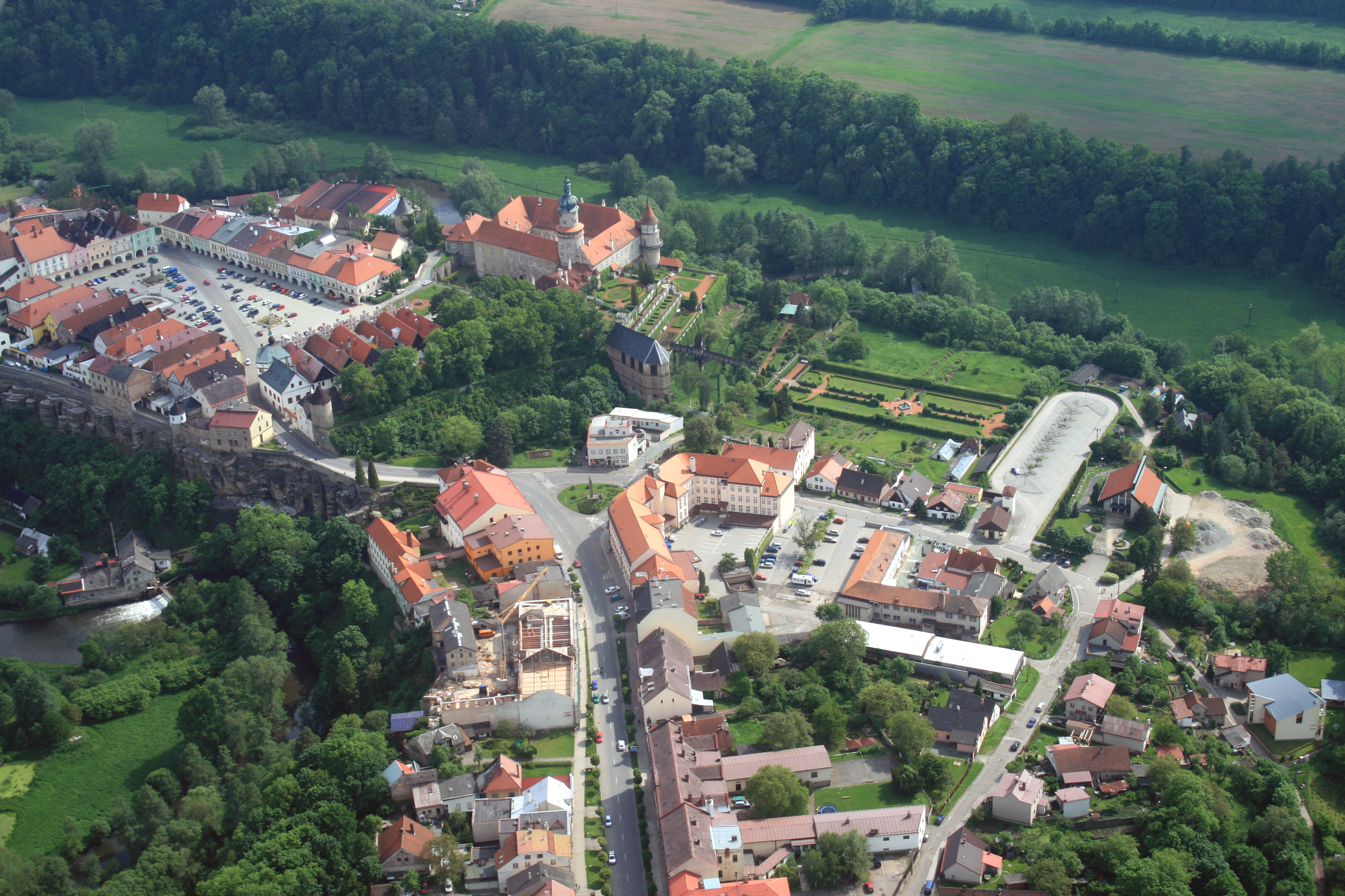 Old part of town and castle in Nové Město nad Metují from air, eastern Bohemia, Czech Republic